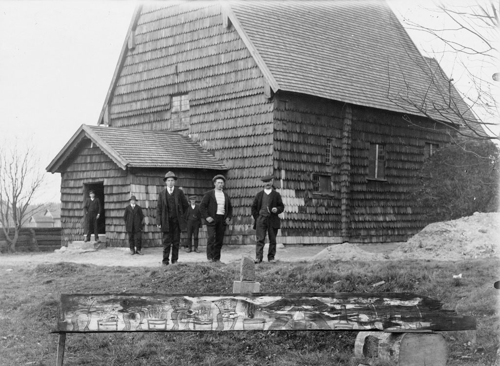 Men outside Södra Råda Old Church, built ca. 1310-1323. In the foreground a carved painted log from under the shingled roof of the church. The unique wooden church with its medieval interior paintings was completely destroyed in a fire in november 2001.